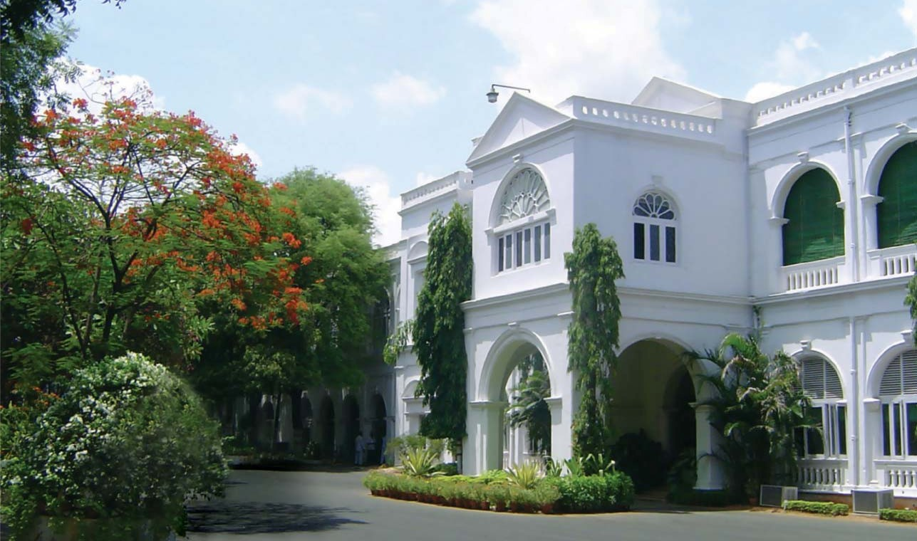 ASCI Building